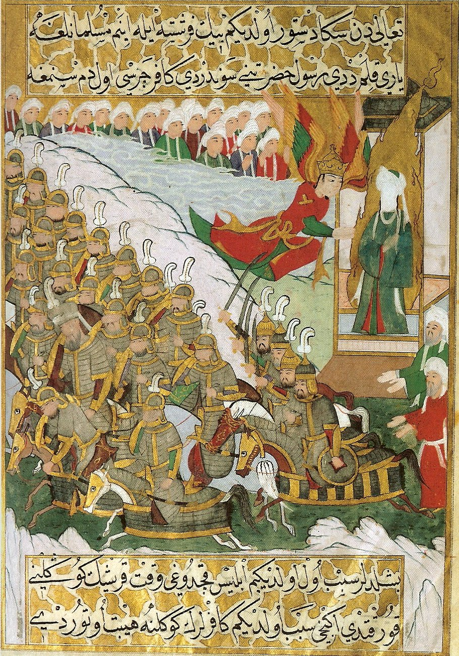 Muhammad sending waves of horsemen into combat at the Battle of Badr in an illustration from the Siyer-i Nebi (The Life of the Prophet), written around 1388. Source: The Quarterly Journal of Military History